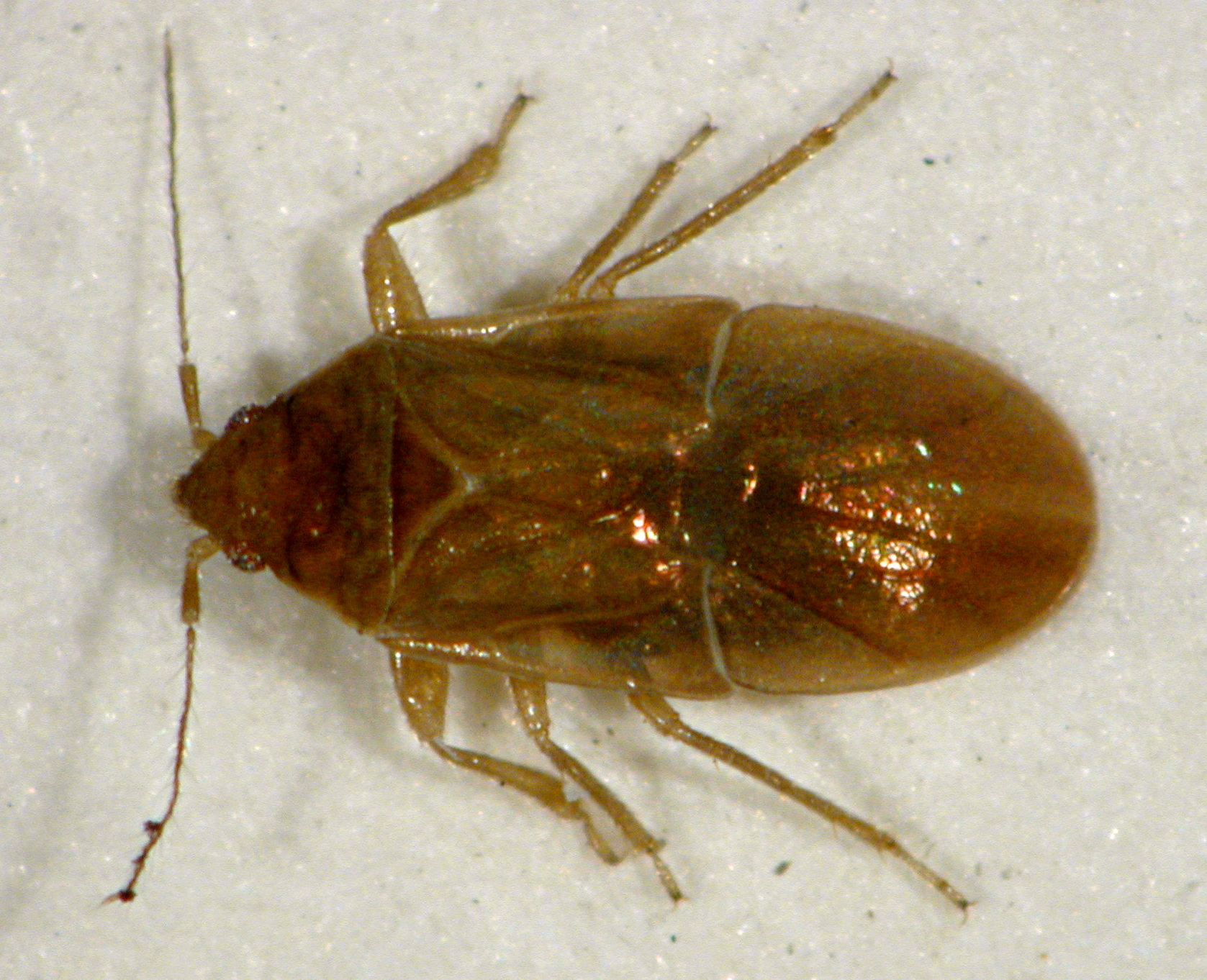 Fotografiert in der Zoologischen Staatssammlung München. Weibchen.